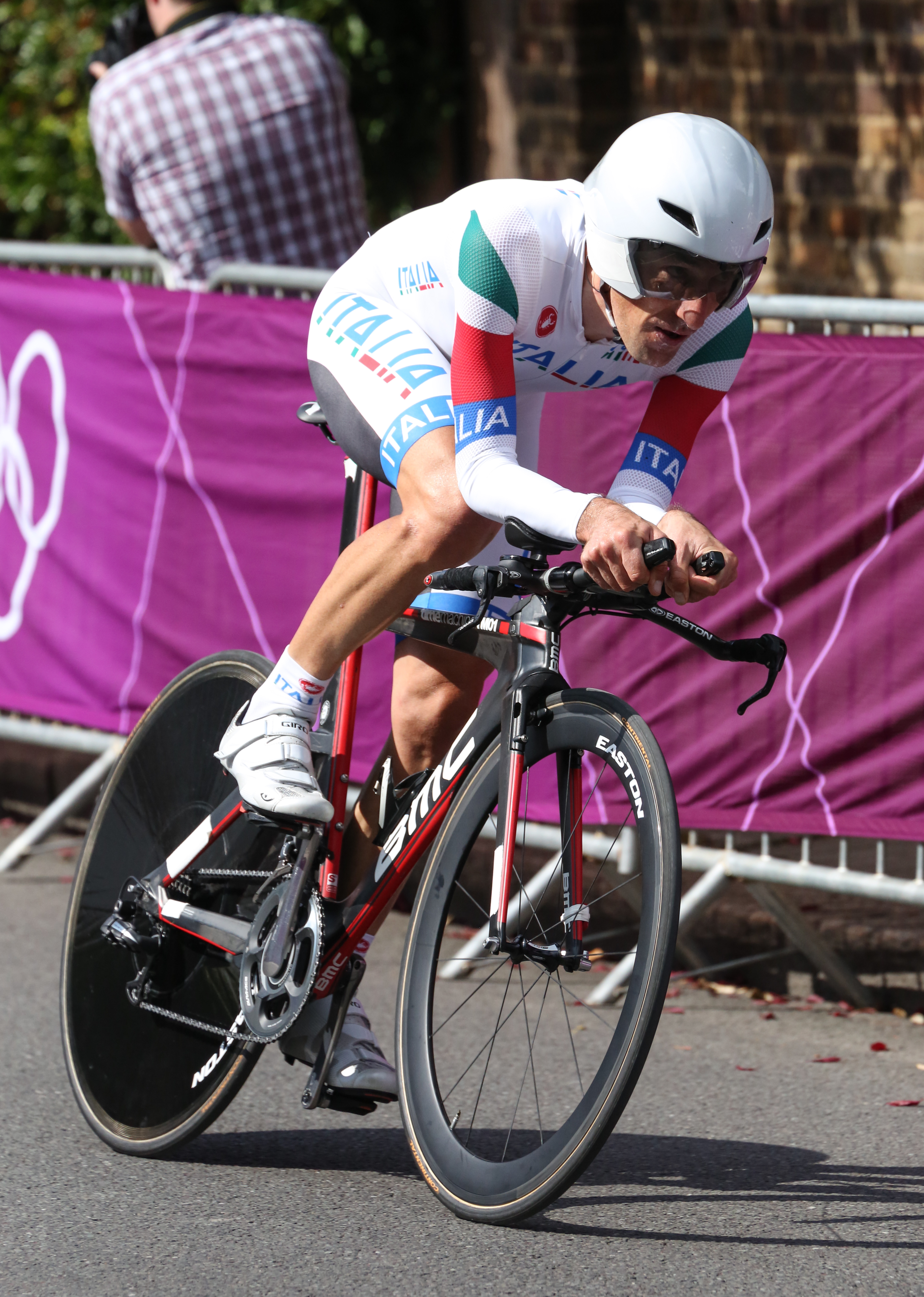 Marco Pinotti competing in the London 2012 Men's Olympic Time Trial.